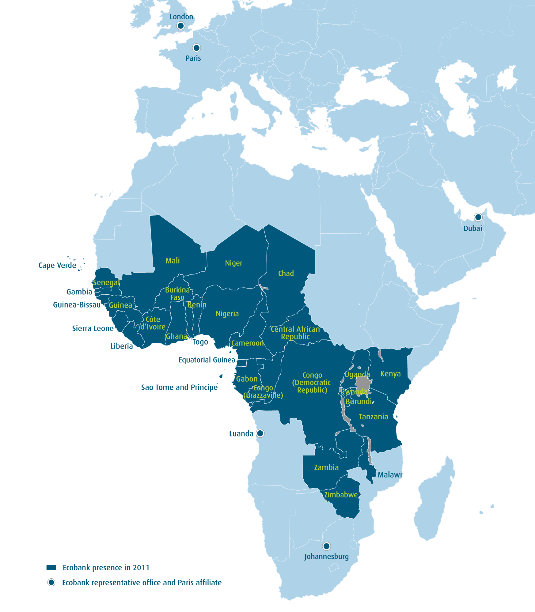 Ecobank global presence 2011